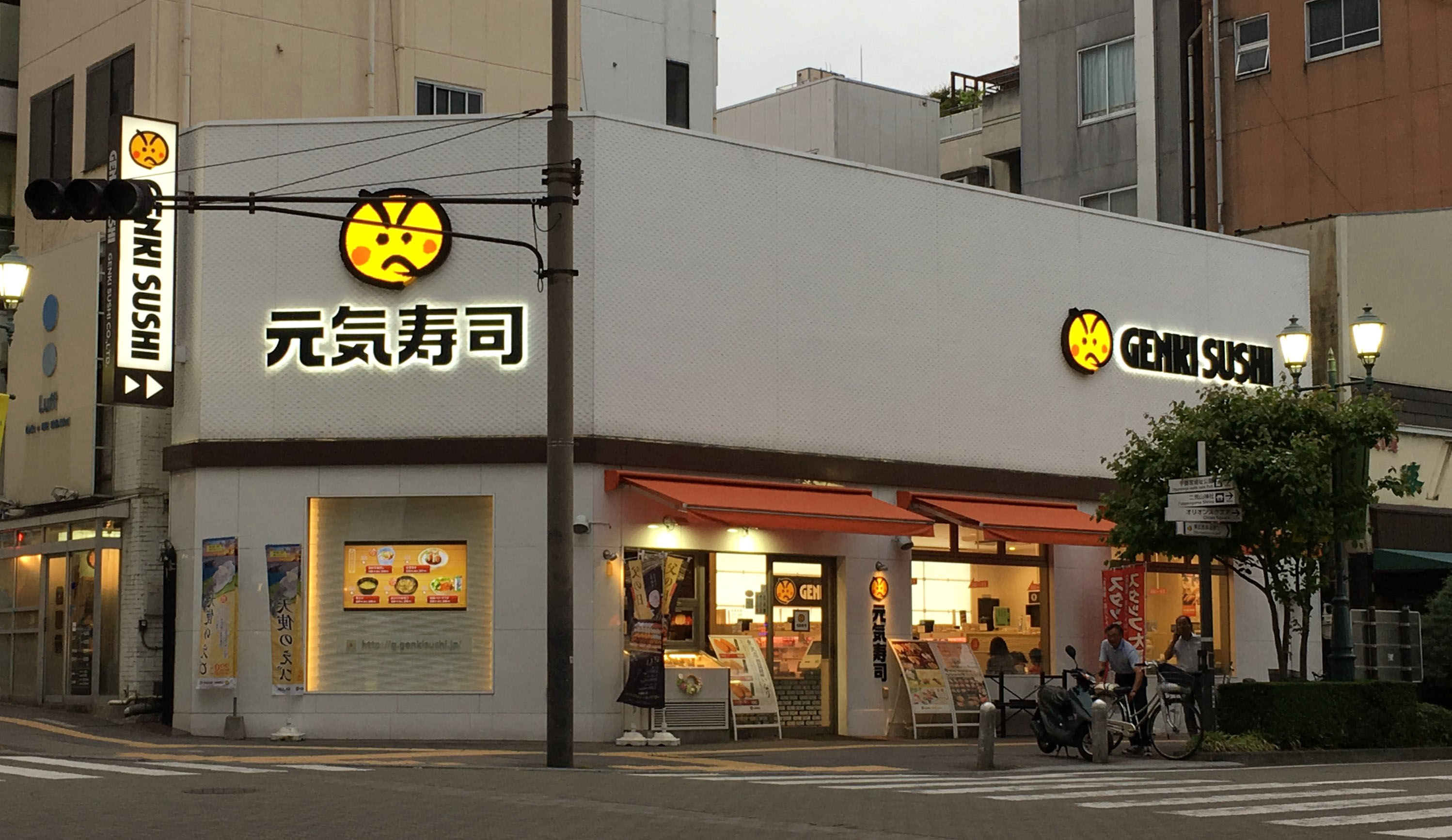 Genki-sushi (Japanese sushi restaurant chain) Tobu branch (Utsunomiya, Japan)